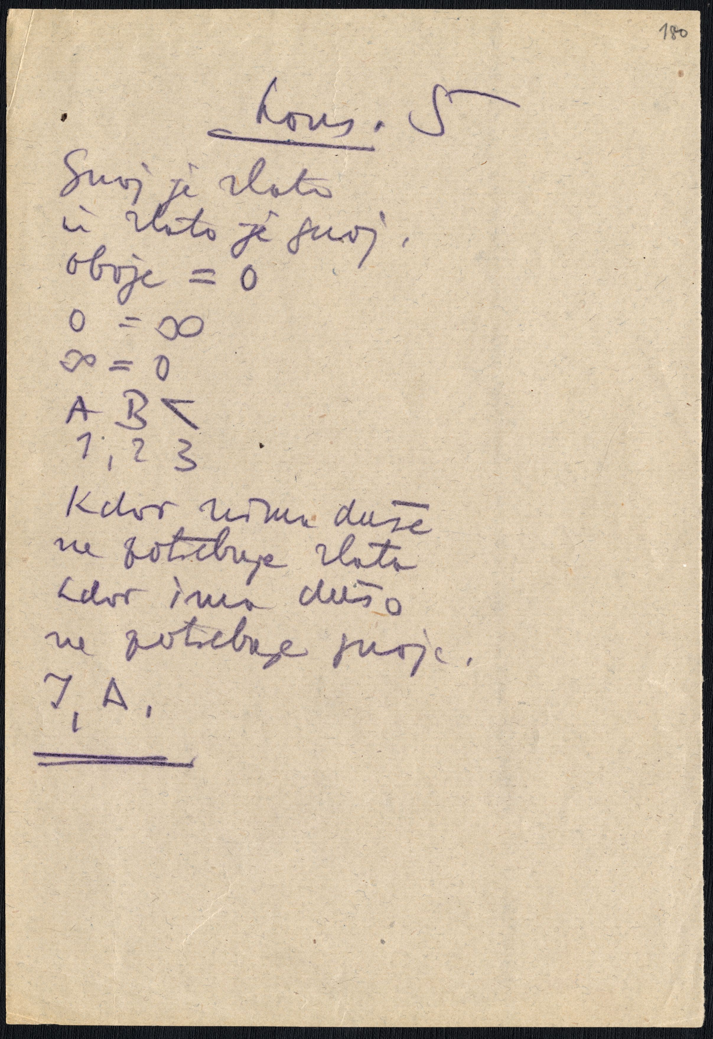 The manuscript of the poem Kons 5 by Srečko Kosovel.